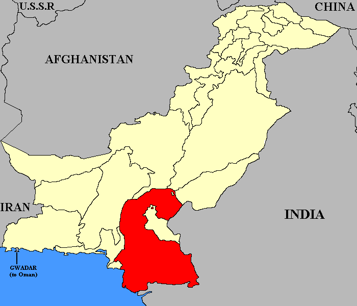 Approximate location of the former province of Sind within Pakistan